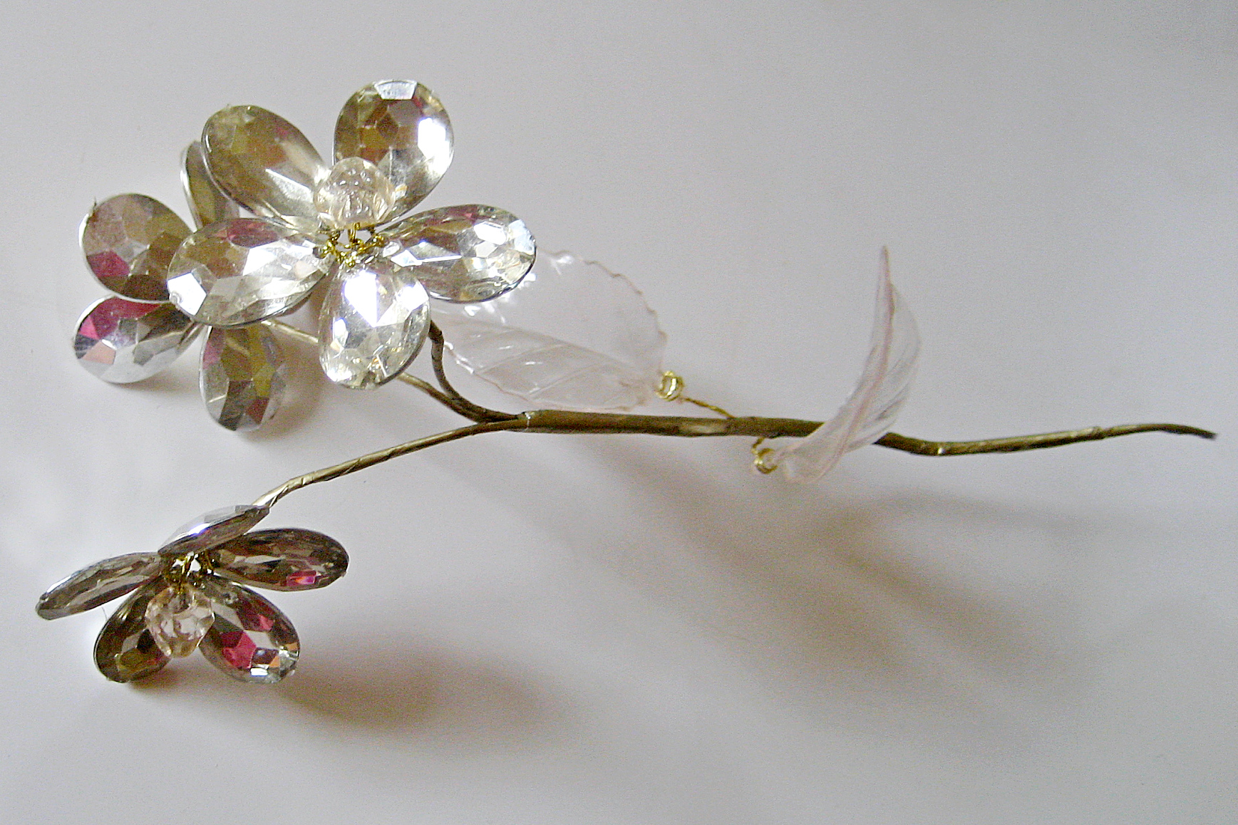 Glass flower